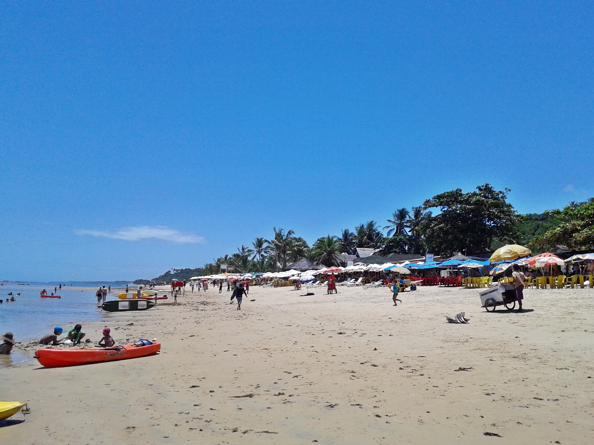 View of the Mucugê beach in the Arraial d'Ajuda district, in Porto Seguro, Bahia, Brazil.